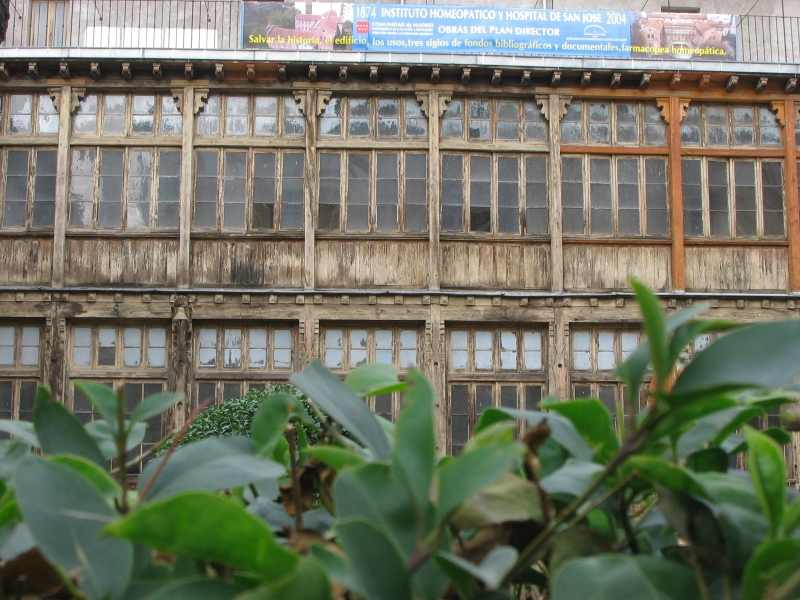 Courtyard of the former Homeopathic Institute and St. Joseph Hospital in Madrid (Spain). Building was projected in 1873 by architect José Segundo de Lema and built from 1873 to 1877.